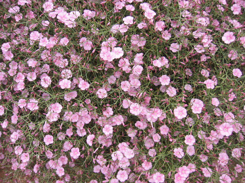 Splendid Bindweed